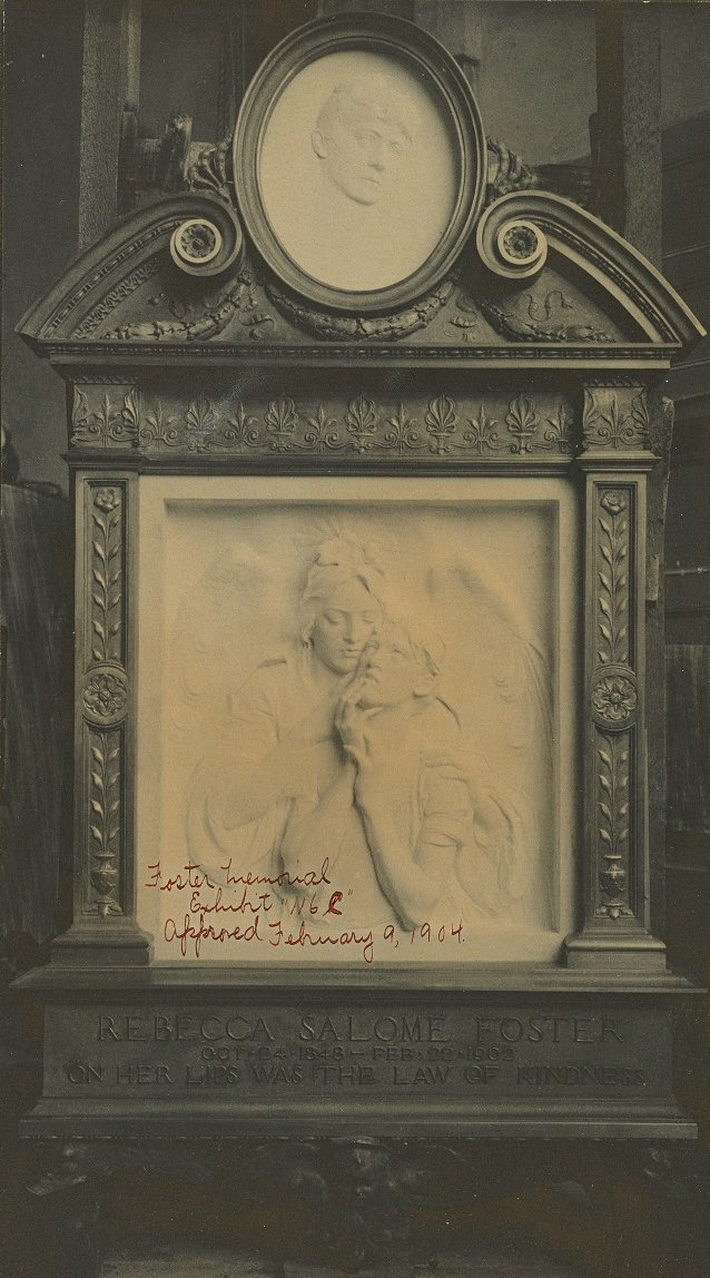 Monument to the prison relief worker Rebecca Salome Foster, 1904. Sculpted by Karl Bitter, with a bronze frame by Charles Rollinson Lamb. Photograph from the archives of the New York City Public Design Commission.